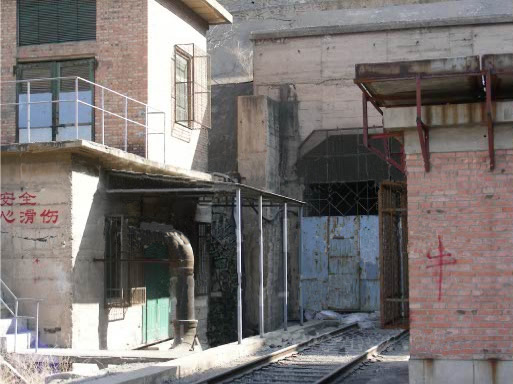 The tunnel exit of No.53 Station, Beijing Subway, China (near)